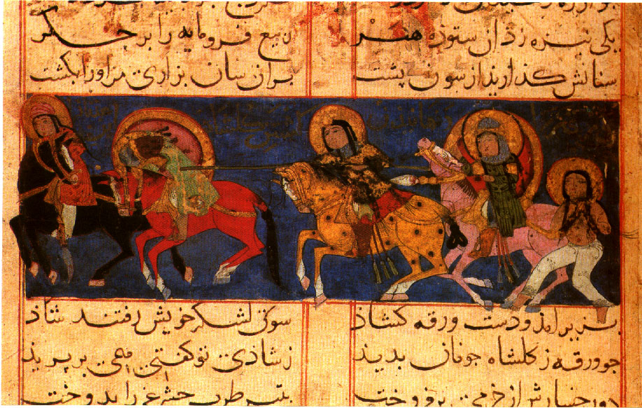 Gulshah kills the Enemy of her Beloved - Taken from a scientific book.